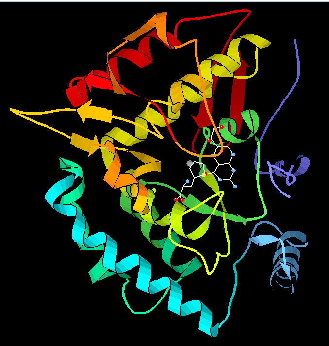 Phenylalanine hydroxylase. Created from PDB 1KW0.